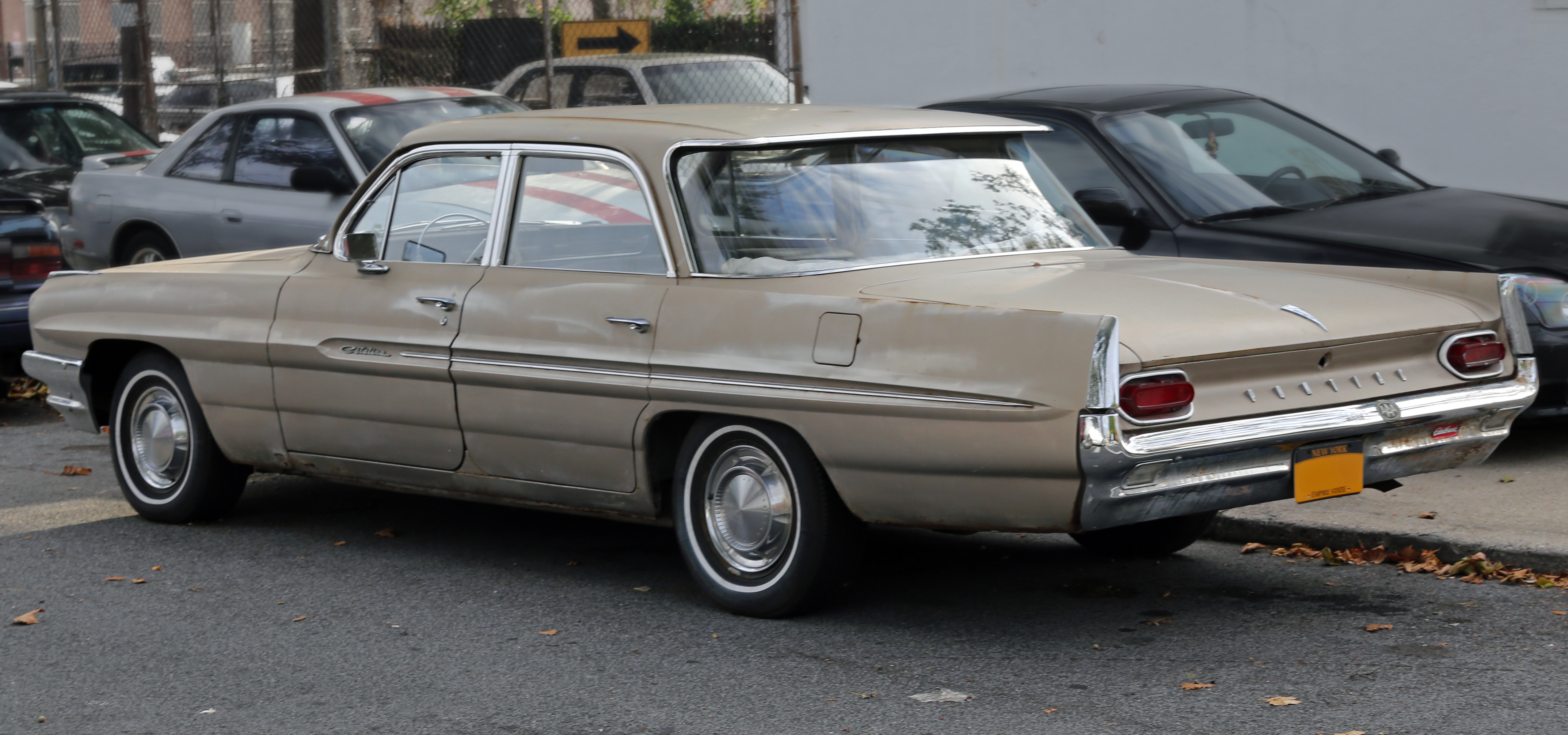 1961 Pontiac Catalina 4-door sedan, assembled in Kansas City, KS.